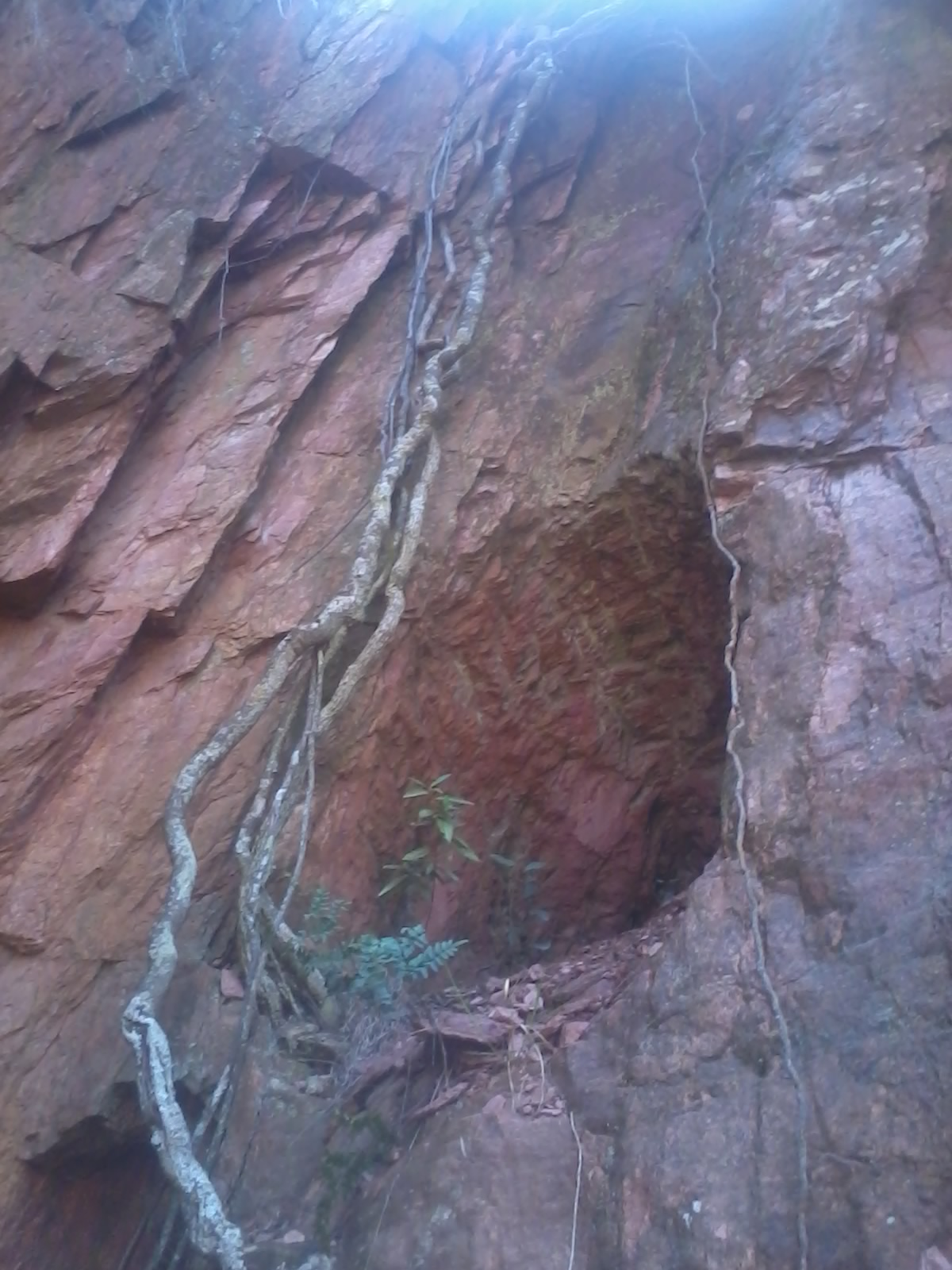 Struben brothers mine shafts at Confidence Reef in Kloof-en-dal nature reserve This media shows a South African Protected Site with SAHRA file reference 9/2/262/0001-001.